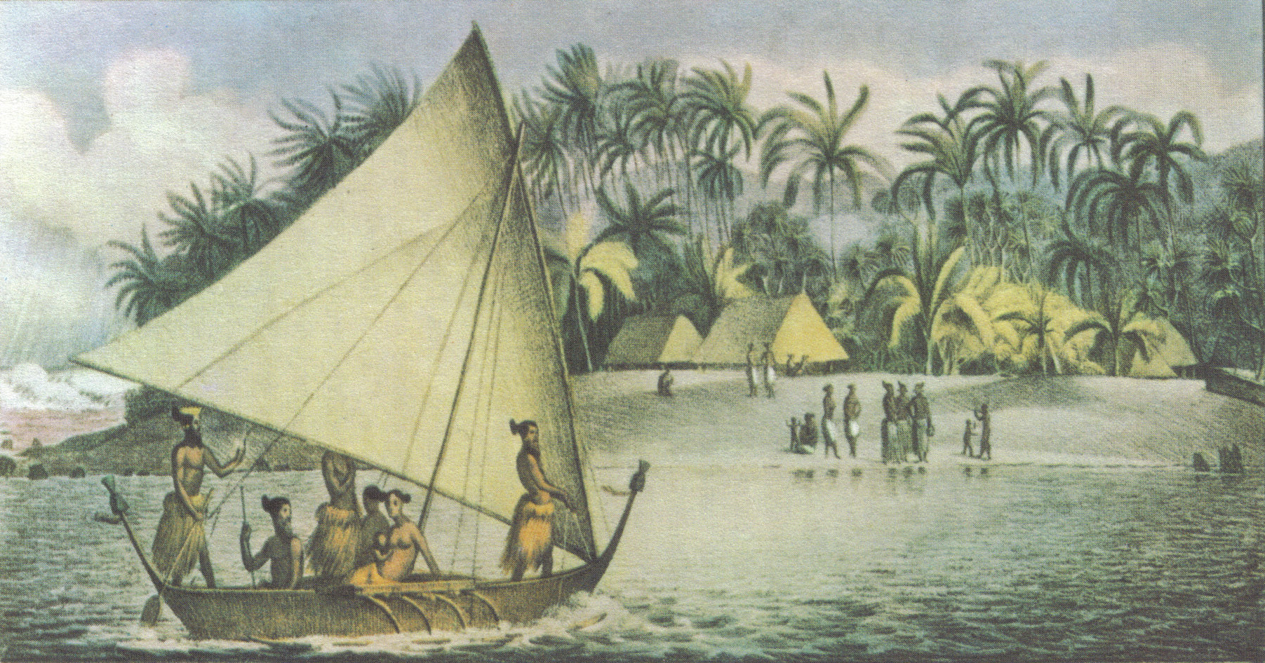 The russian crew of the Rurik discovers the Krusenstern Islands (today Tikehau) in Polynesia. Drawing by Louis Choris in early 1816.